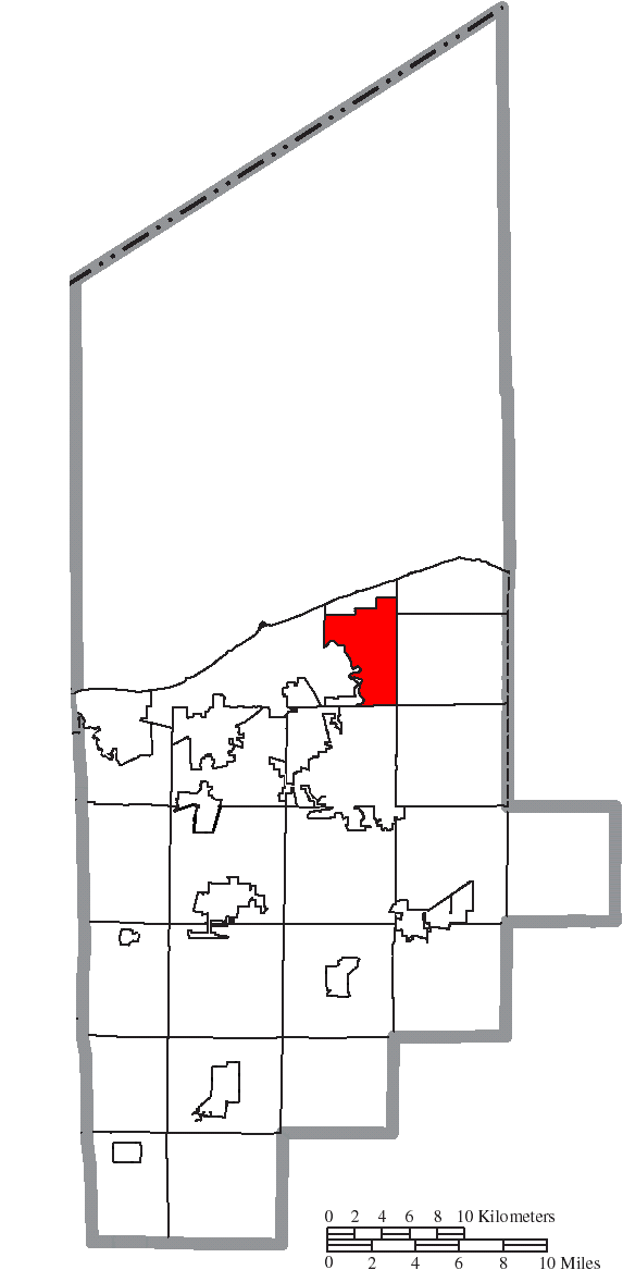 Map of the municipal and township boundaries of Lorain County, Ohio, United States, as of the 2000 census, with the location of the village of Sheffield highlighted. Township borders are shown only in unincorporated areas in order to differentiate incorporated and unincorporated areas more clearly.